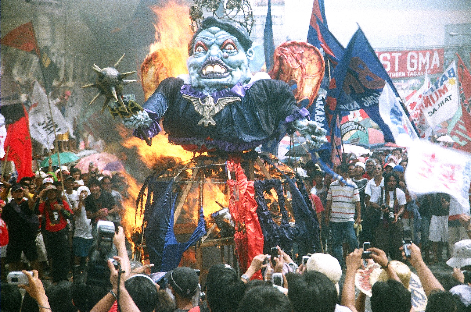 Protesters burned an effigy of President Gloria Macapagal-Arroyo at anti-governement rallies held along Commonwealth avenue during her State of the Nation Address (SONA) in 2007.